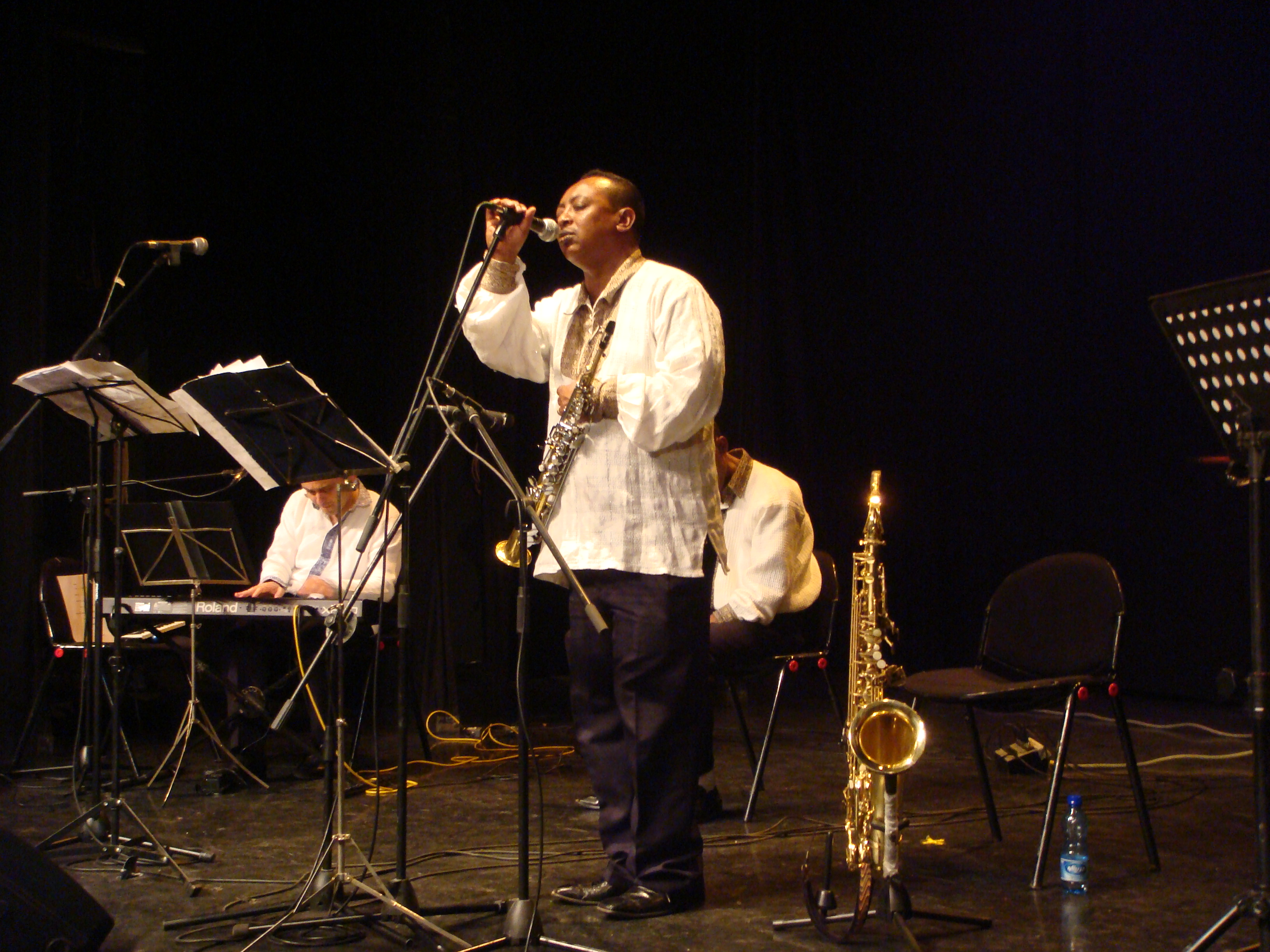 Tezeta Ensemble in concert at Inbal Theatre, Suzanne Dellal Centre, Tel-Aviv, Israel